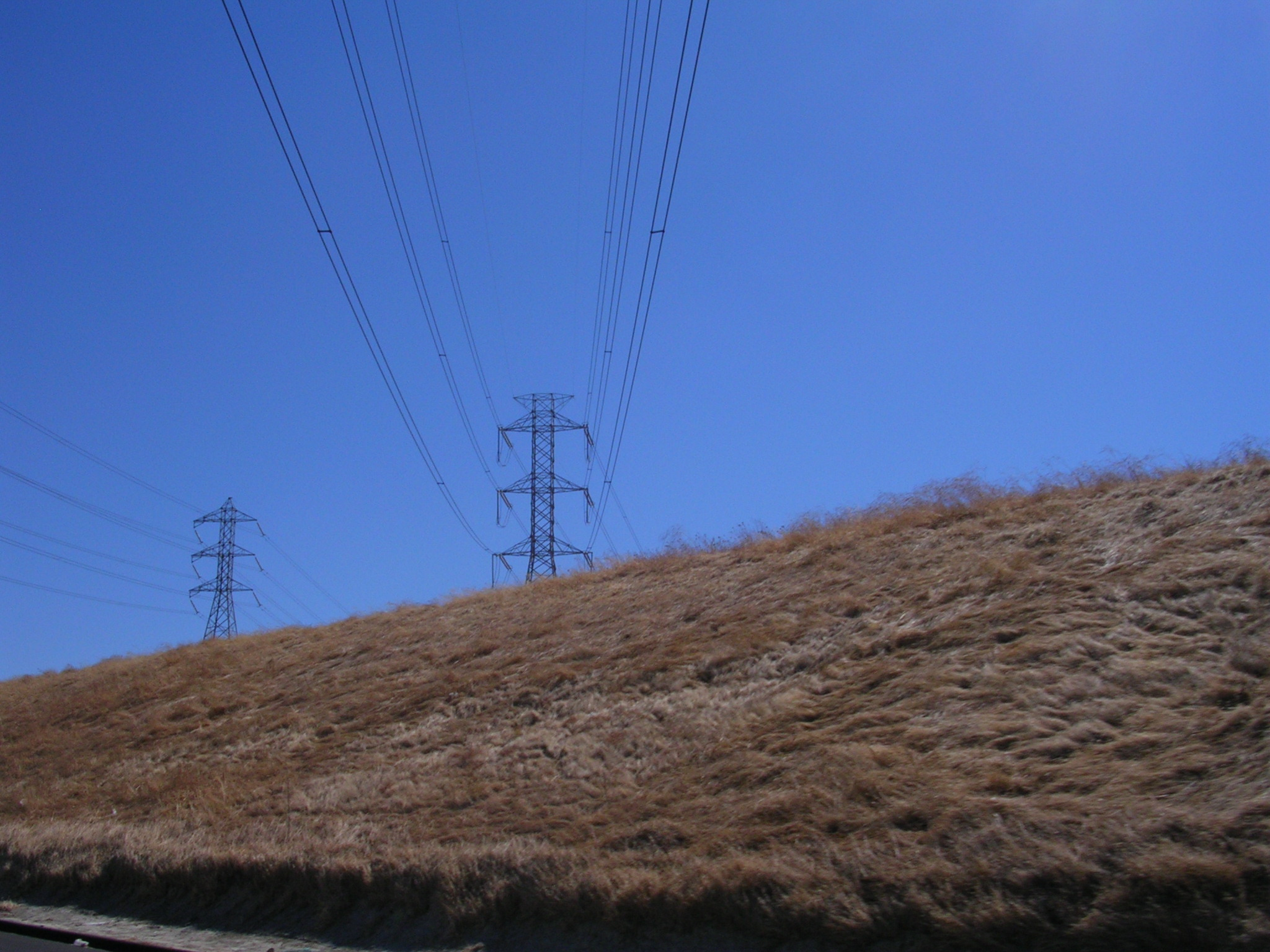 A picture of two dual-circuit power lines crossing I-580 in California. The smaller tower on the left is Modesto Irrigation District's 230 kV line and the larger tower is Western Area Power Administration's 500 kV line (a part of the connection between Path 66 and Path 15).